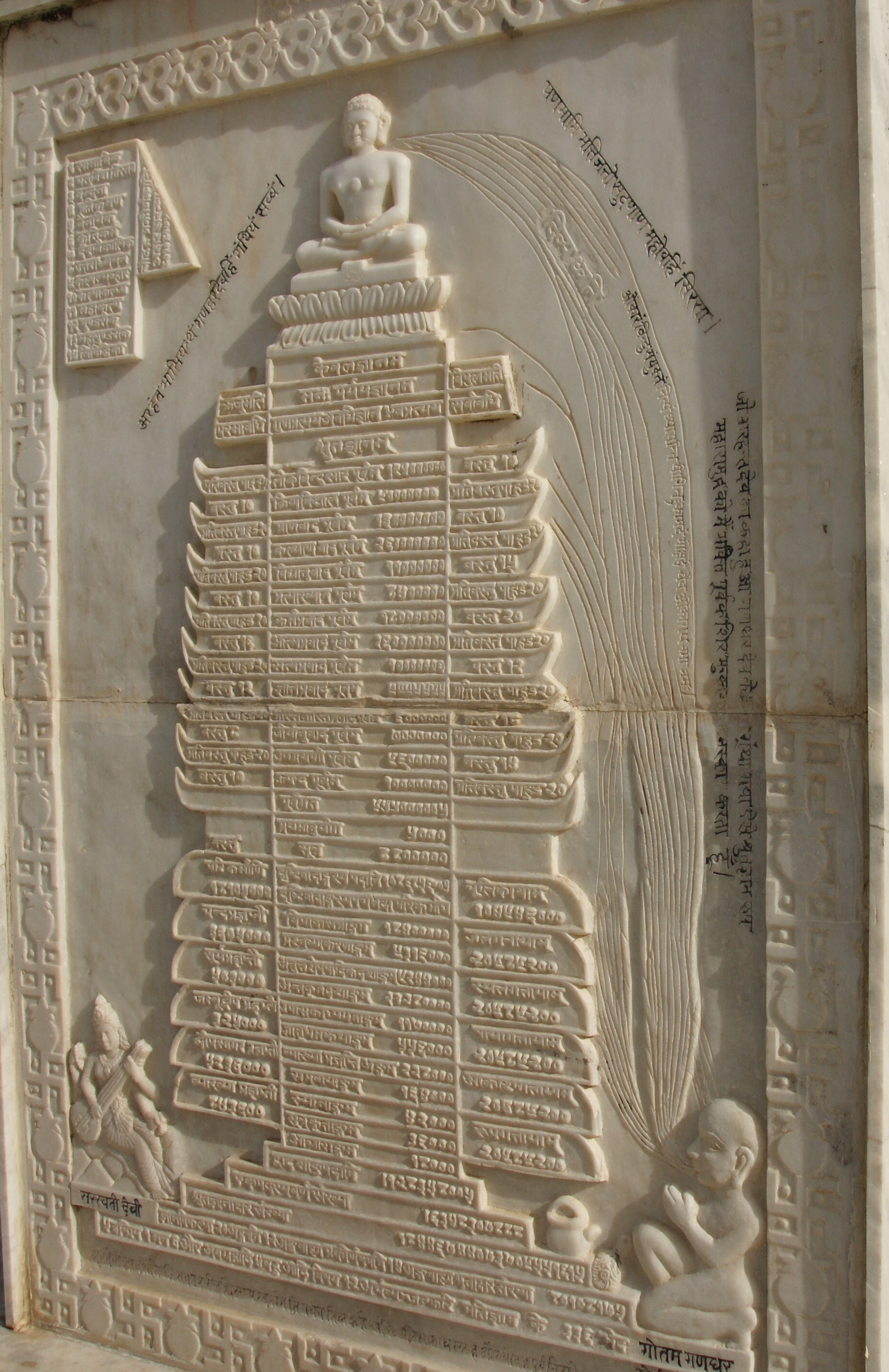 Stella depicting Jinvani (Jain Agamas)